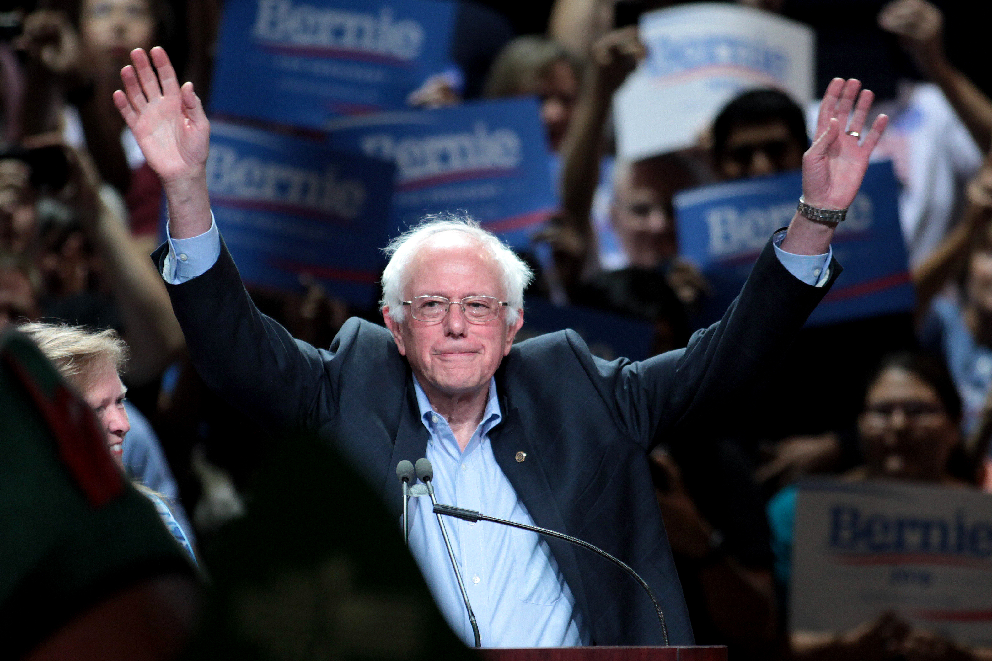 Bernie Sanders speaking at an event in Phoenix, Arizona.